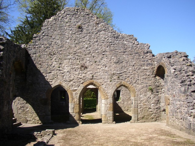 Doorways to service rooms, Old Rectory, Warton. These doorways are here seen from inside the hall, from which they would have been separated by a screens passage, made of timber, possibly with a gallery above; the central doorway leads to a passage to an outside door to an external kitchen. The other two doors are to the pantry and buttery.